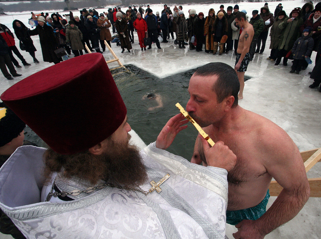 “Epiphany celebration in Maritime Territory”. Epiphany bathing on the Feast of Theophany in an ice-hole in the Partizanka river, the village of Vladimiro-Alexandrovskoye, Maritime Territory.